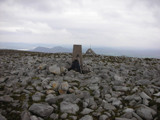 Donegal. "Raghtin More Summit and Triangulation Pillar" Raghtin More is the third highest mountain in the Inishowen area. (Elevation 502 metres, 1647 feet) On a clear day, excellent views from Malin Head to Errigal, Dunaff Head, Tullagh Bay and Binion Mountain.